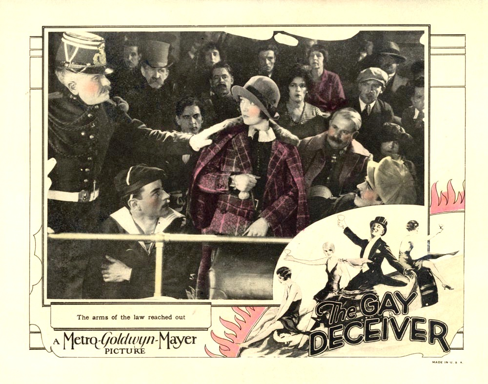 The Gay Deceiver was a 1926 film directed by John M. Stahl. The film stars Lew Cody and Carmel Myers. This lobby card was published pre-1978 with no copyright notice, thus it is in the public domain.